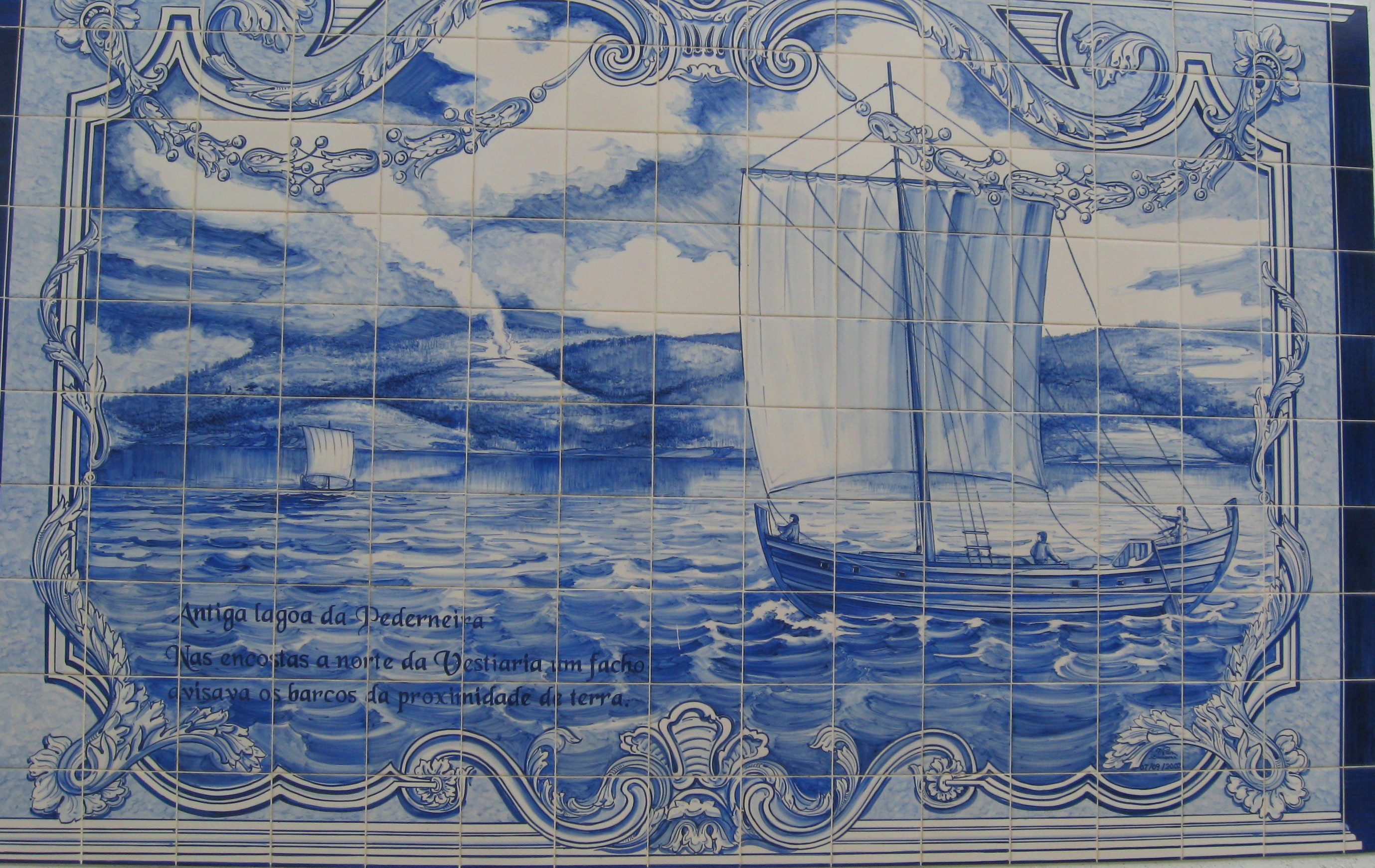 Alcobaça, Portugal, Mosteiro, Coutos de Alcobaça, Vestiaria founded as Vila S. Bernardo by the monks 1506, there has been a light signal for the former Lagoon of Pederneira already installed by the Phoenicians in centuries B.C.; modern azelujos describing the fire